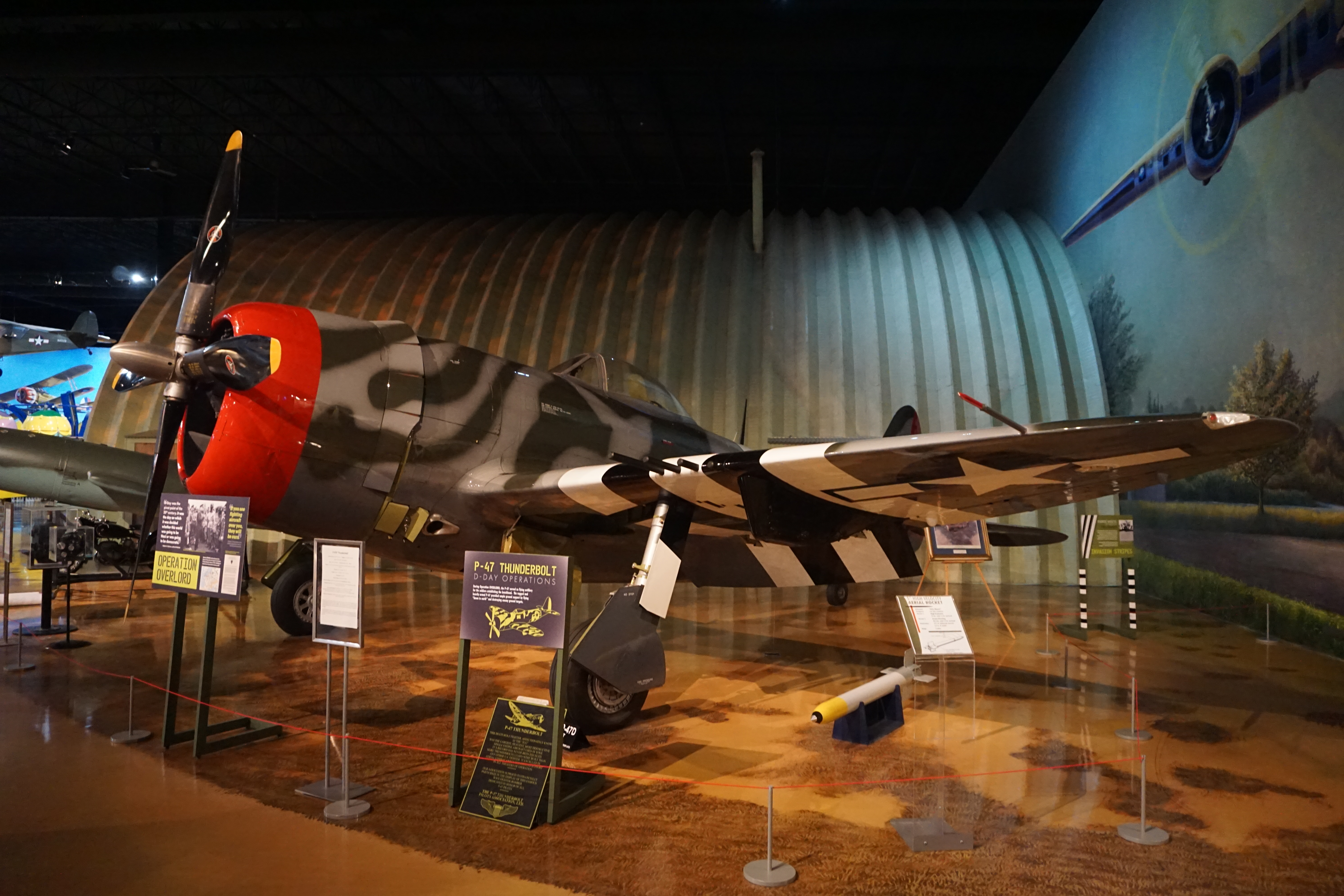 A Republic P-47D Thunderbolt on display at the Air Zoo at Kalamazoo/Battle Creek International Airport in Portage, Michigan (United States).